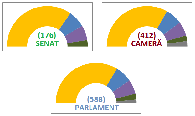 Election results for the Senate of Romania and Chamber of Deputies of Romania, and as a whole (Parliament of Romania, grouped by competitors: Social Liberal Union, Right Romania Alliance, Peoples' Party - Dan Diaconescu, Democratic Union of Hungarians in Romania and ethnic minorities parties